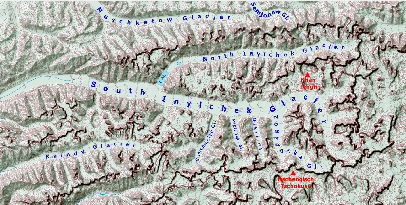 Map of Inylchek-Glacier in central Tian Shan. L.M. - Lake Merzbacher